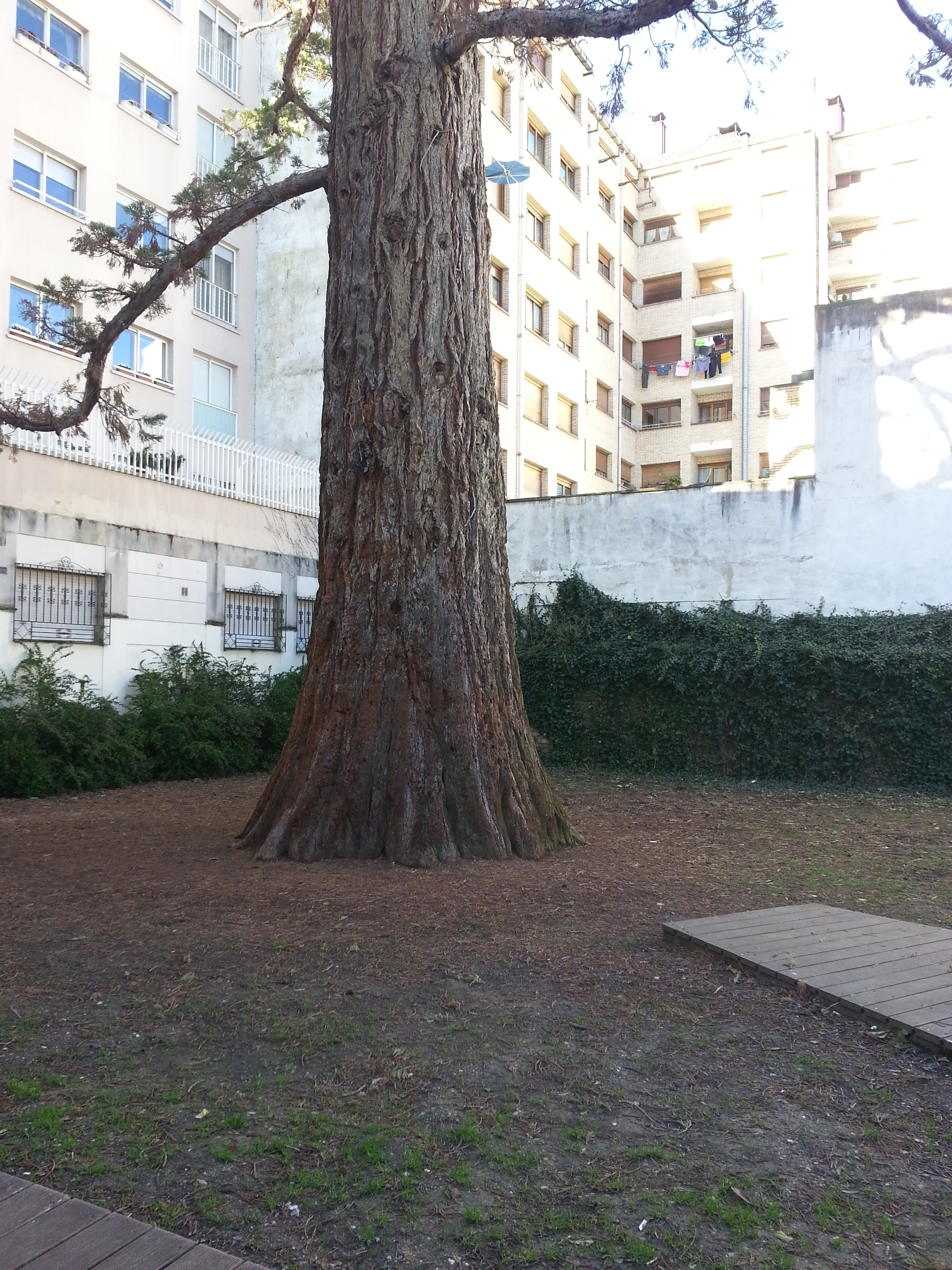 Sequoia's Big Trunk.